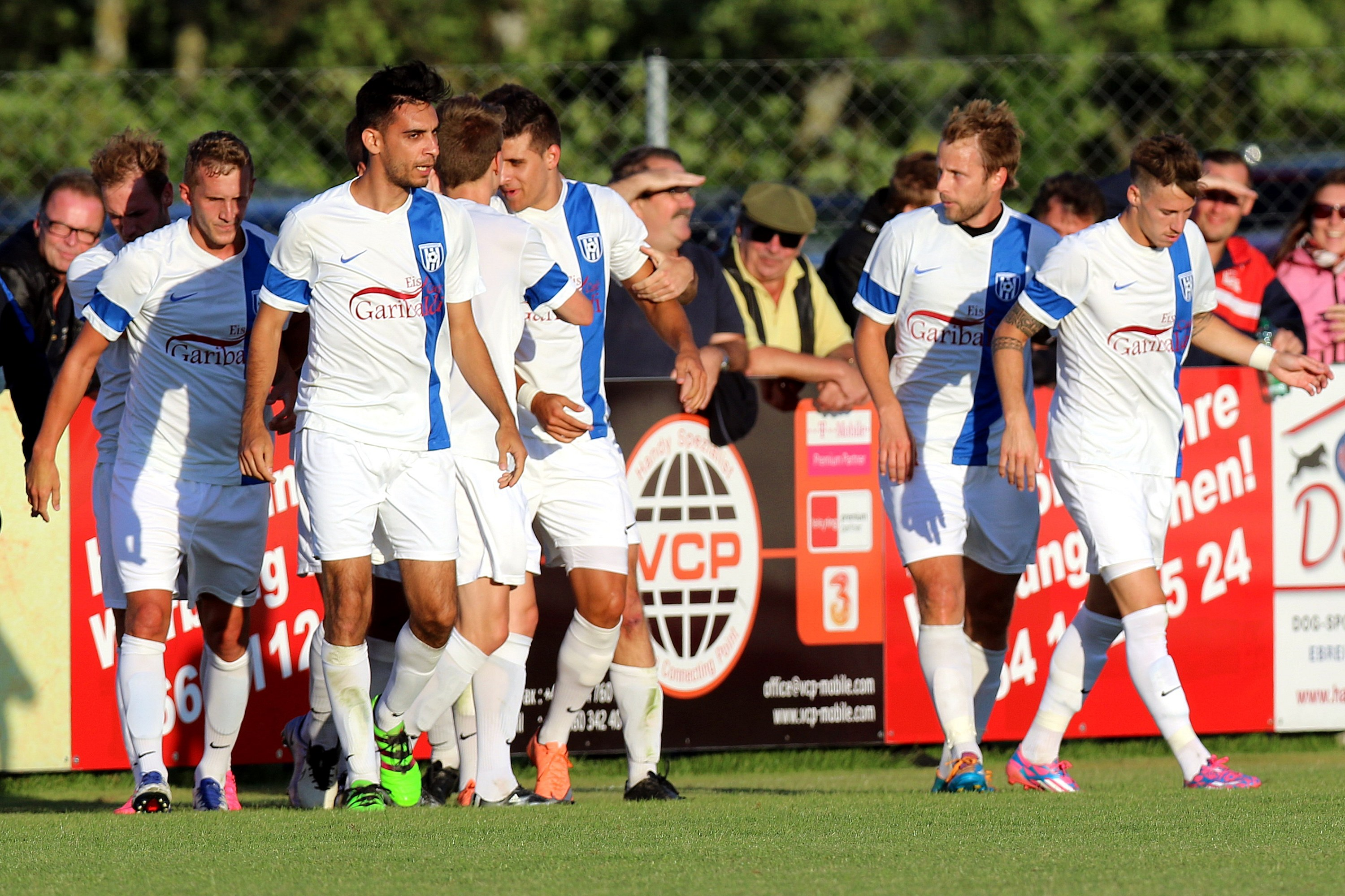 2016–17 Austrian Cup, 1st Round: ASK Ebreichsdorf vs. Wolfsberger AC 1-0 (1-0) at 2016-07-15 in Ebreichsdorf – The photo shows